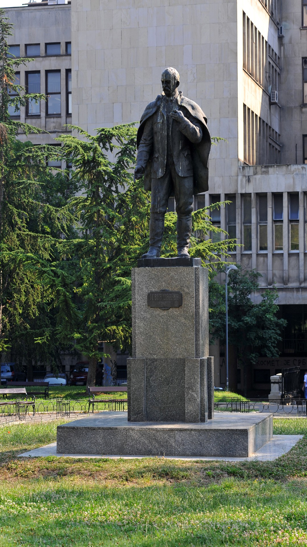 Monument of Jovan Cvijić in the University Park, Belgrade